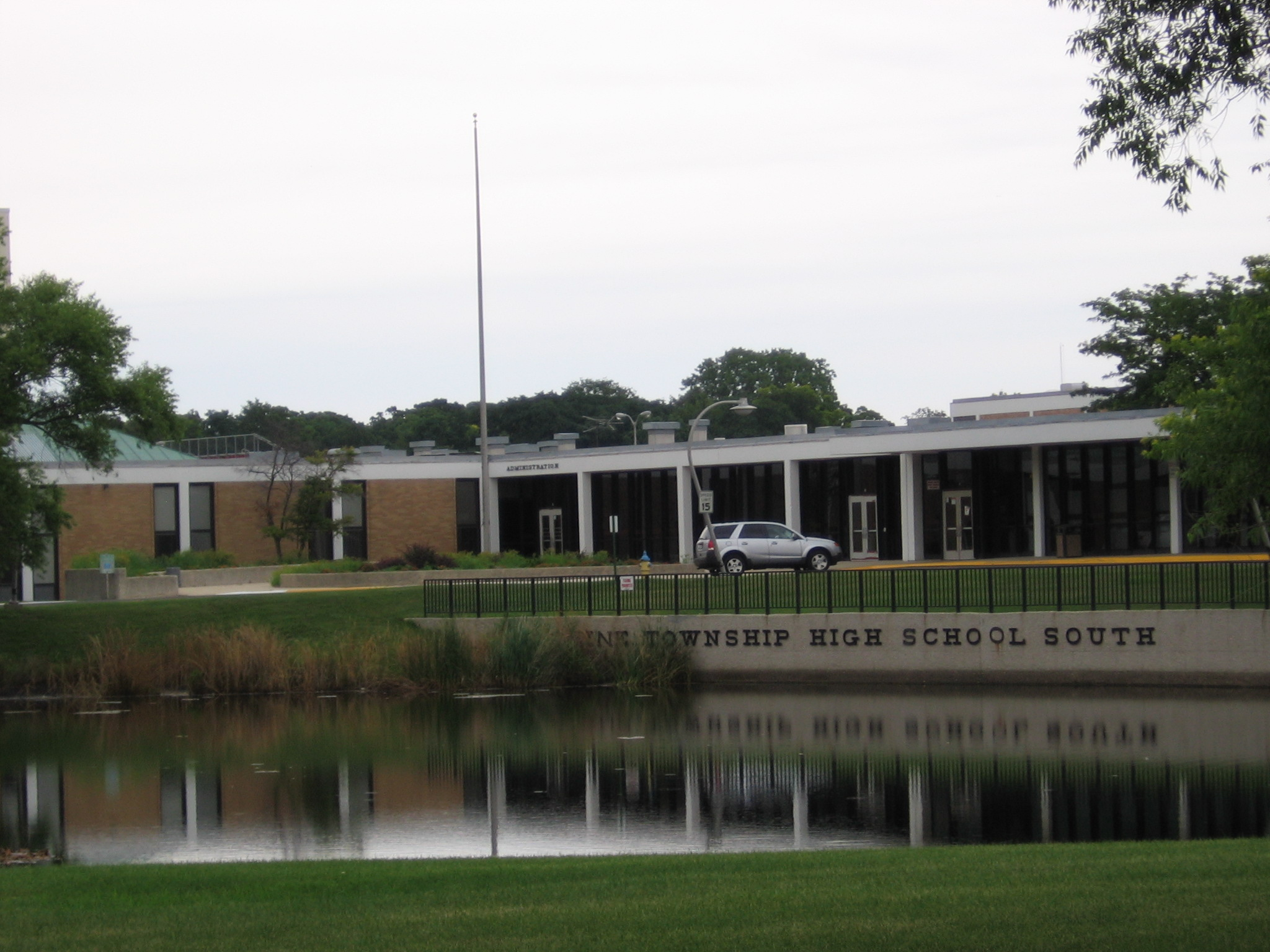 This is a photograph of the main entrance of Maine South High School, a public secondary school in Park Ridge, Illinois.